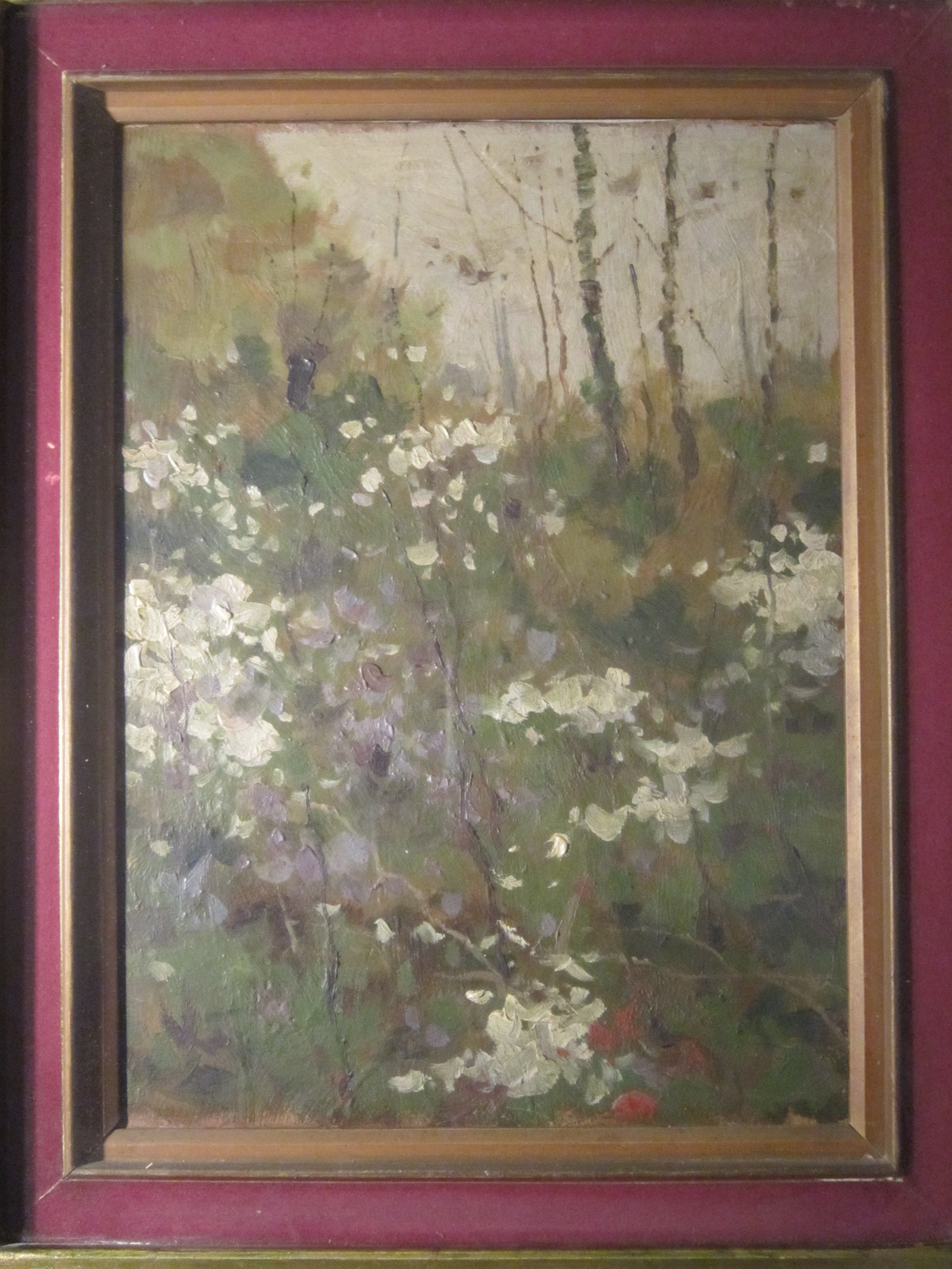 This is a work of Antonino Sartini